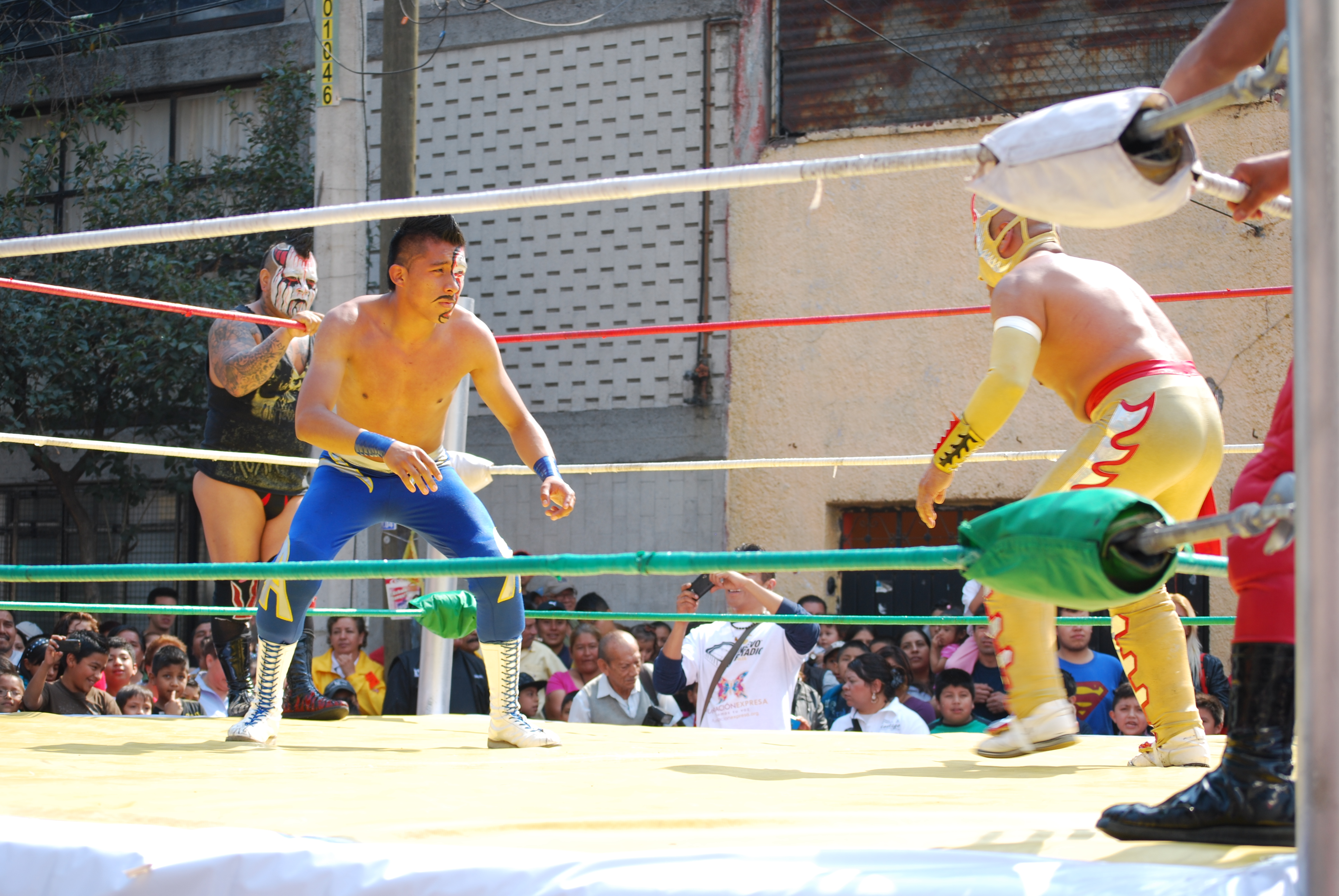 First match at a CMLL lucha libre event part of Festival Día de Reyes Territorial Obrera Doctores in Mexico City